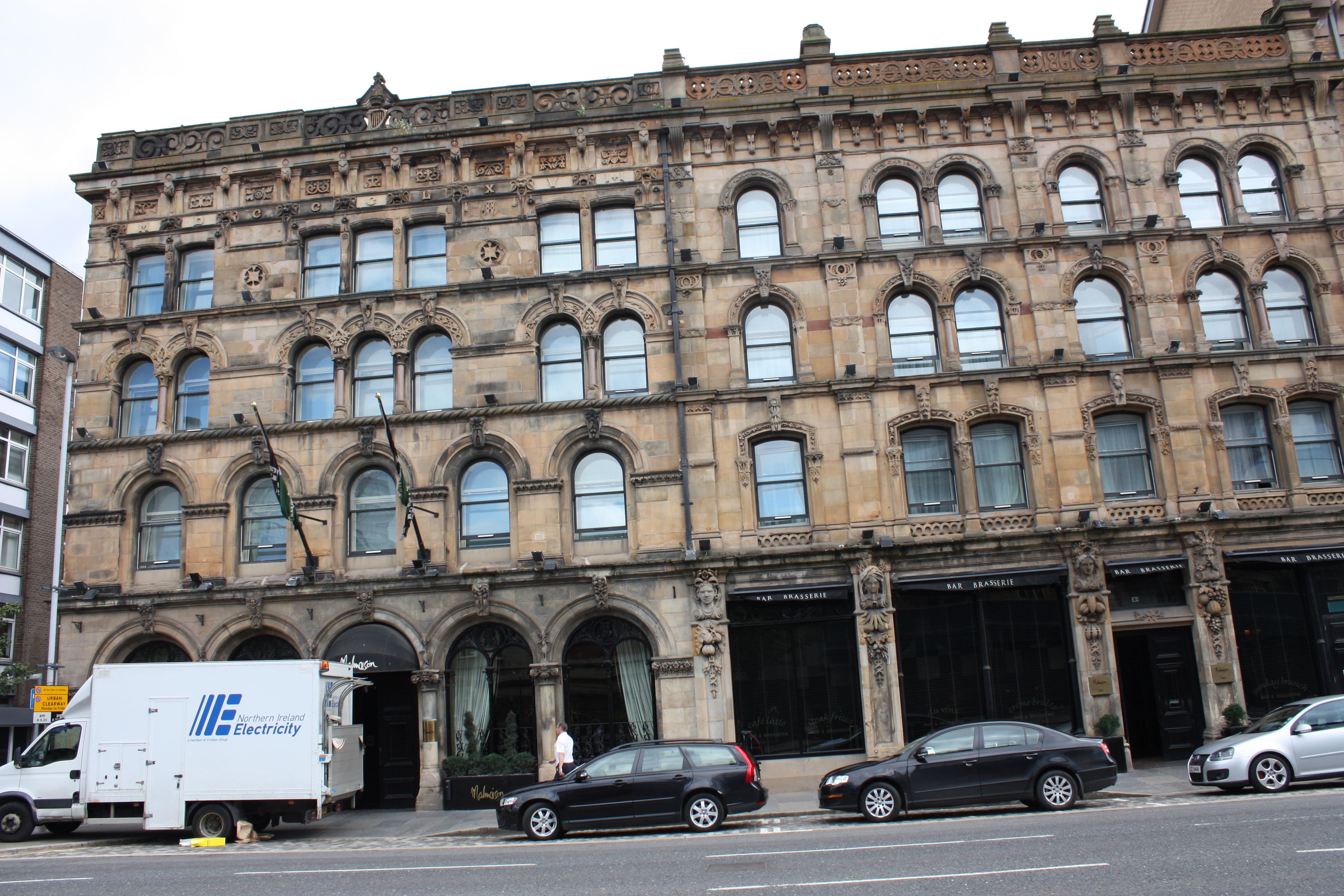 Malmaison Hotel, Victoria Street, Belfast, Northern Ireland, July 2010